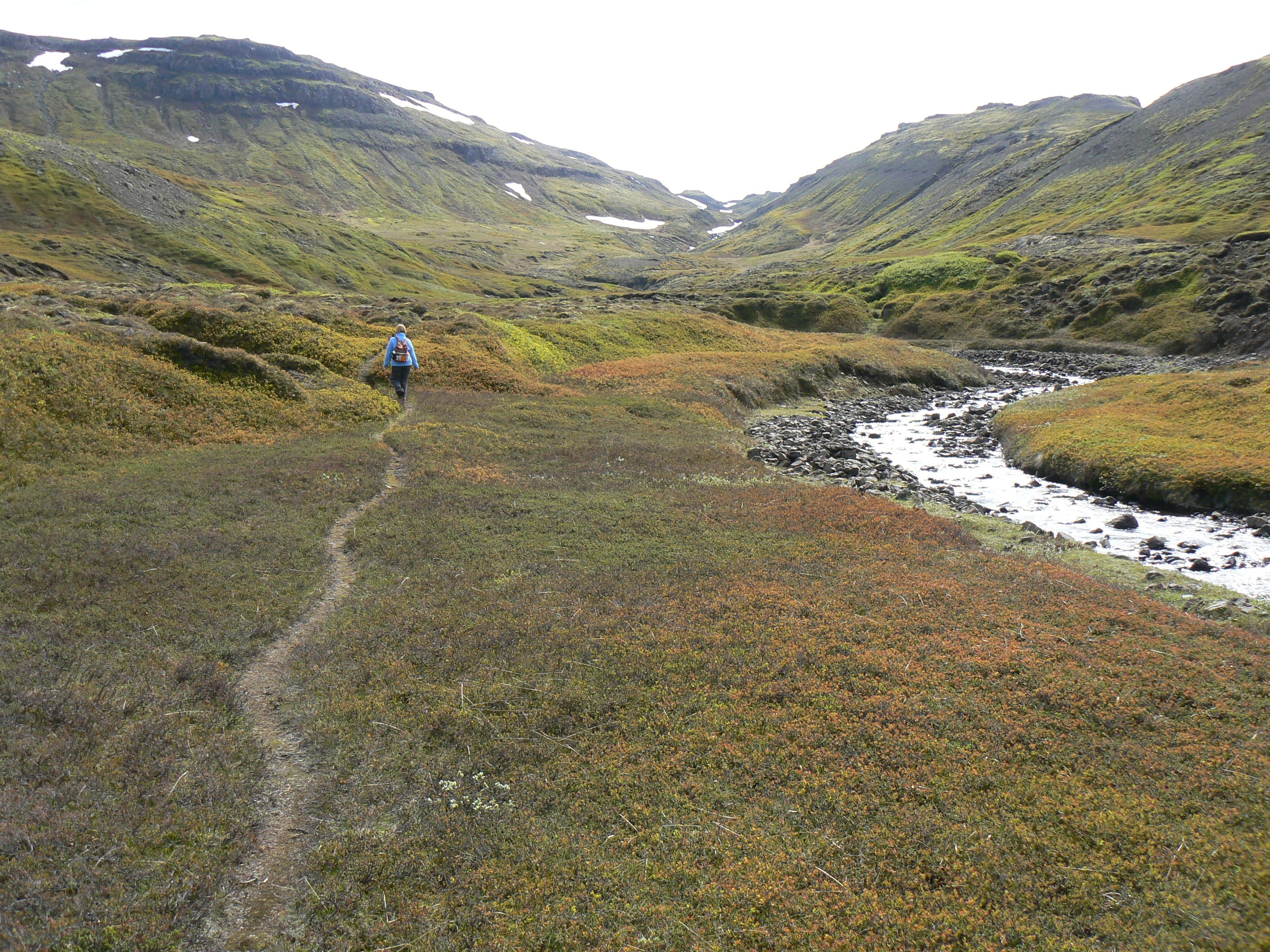 Icelandic trail